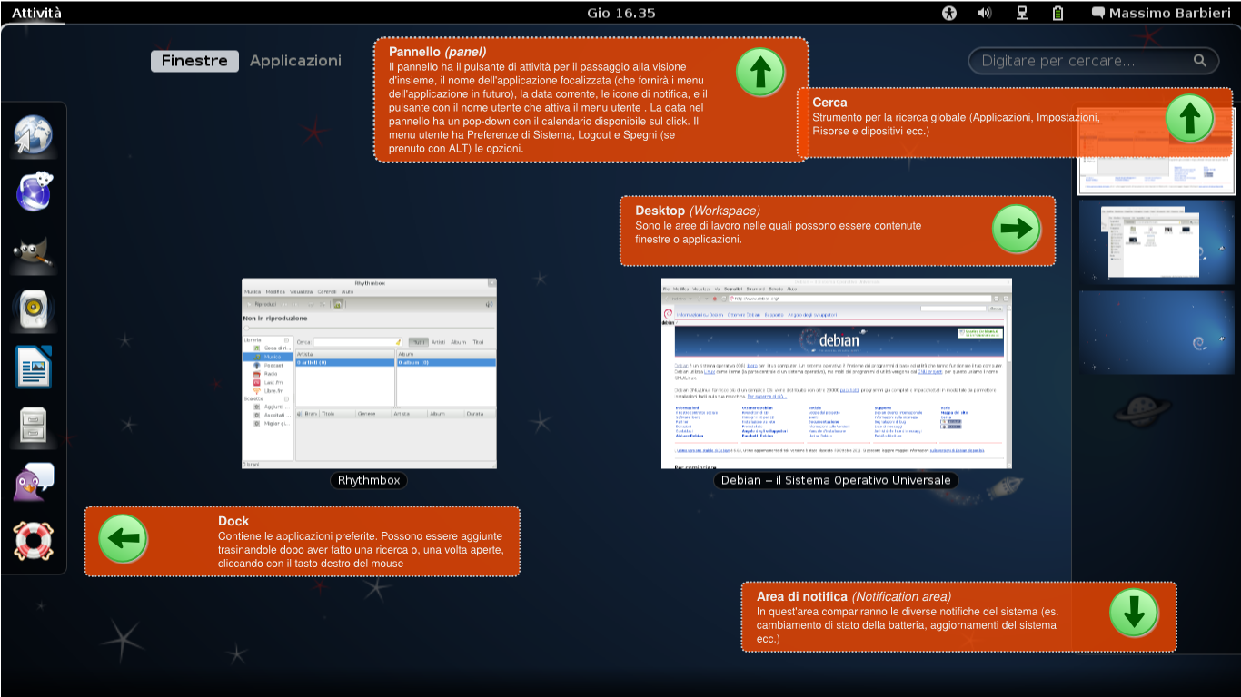 A retouched screenshot of GNOME Shell describing its elements (in Italian).